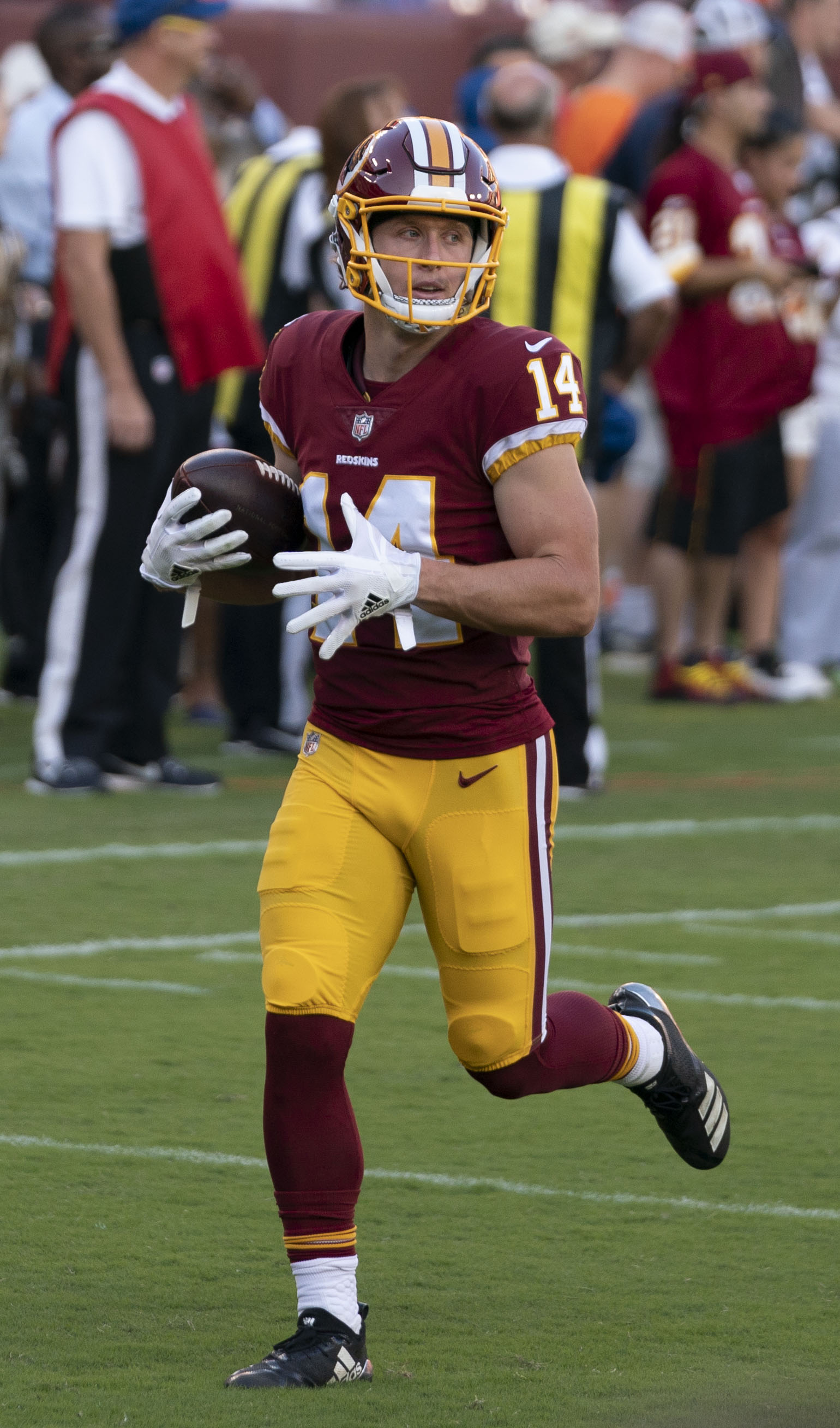 Washington Redskins wide receiver, Trey Quinn, warming up before a preseason game agains the Denver Broncos on August 24, 2018.